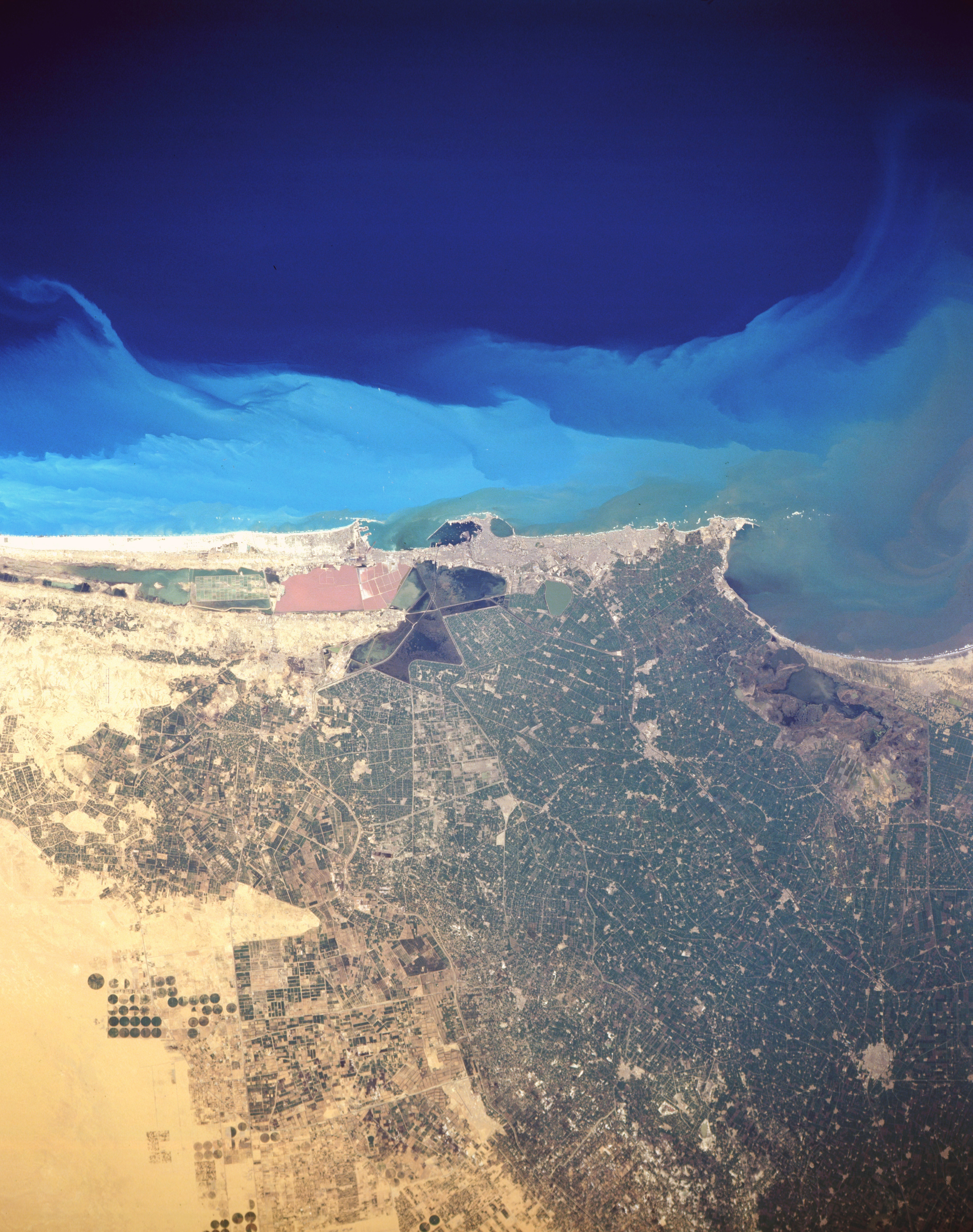 Alexandria, Egypt - March 1990 The seaport city of Alexandria, with a population of more than 3.5 million, is built primarily on a sandy strip of land between the Mediterranean Sea and Lake Mareotis. An industrial and commercial city, Alexandria anchors the western extent of the large Nile River Delta. Although most of the city infrastructure is not visible, some of the large modern harbor facilities, including a breakwater structure, are discernible in the small bay. The unusual tan water body southwest of the port facilities is possibly a holding pond for industrial effluents. A narrow band of darker substance in the water current appears to be flowing toward the east, and farther offshore, an interesting light blue turbidity indicates water color boundaries along this part of the Mediterranean Sea. A series of canals and roadways appears within the darker green of the fertile, intensively cultivated and irrigated, agricultural Nile River Delta. Circular field patterns southwest of the city indicate that center-pivot irrigation is being used in addition to irrigation from ditches and canals. The smaller, highly reflective areas scattered among the irrigated farmland are villages and cities.